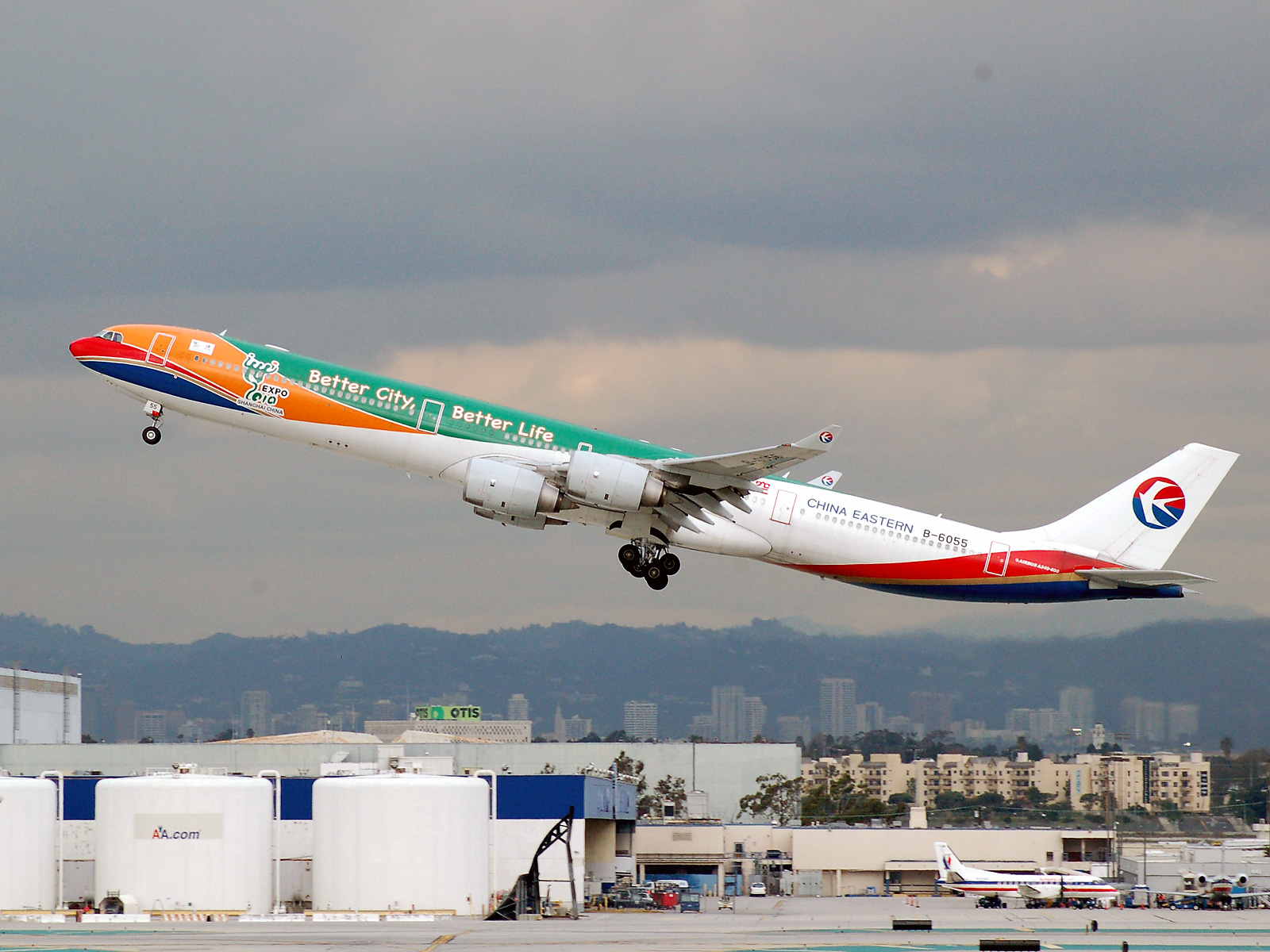 An Airbus A340 (B-6055) owned by China Eastern in special livery for Expo 2010, prominently featuring the expo's slogan "Better City - Better Life."